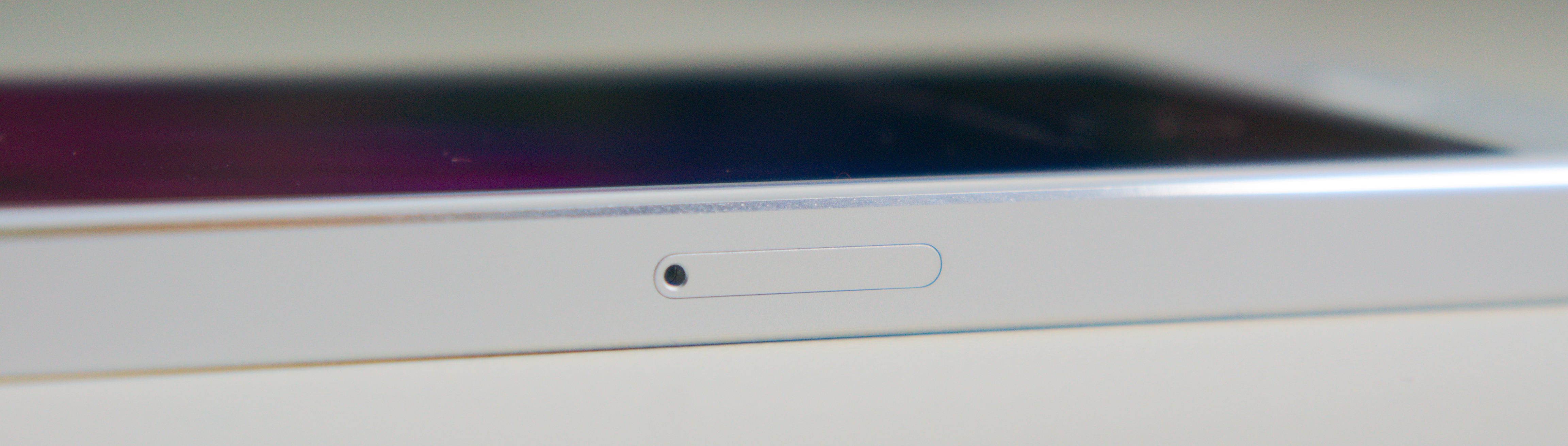 A closeup of the iPhone 5/5S SIM card tray